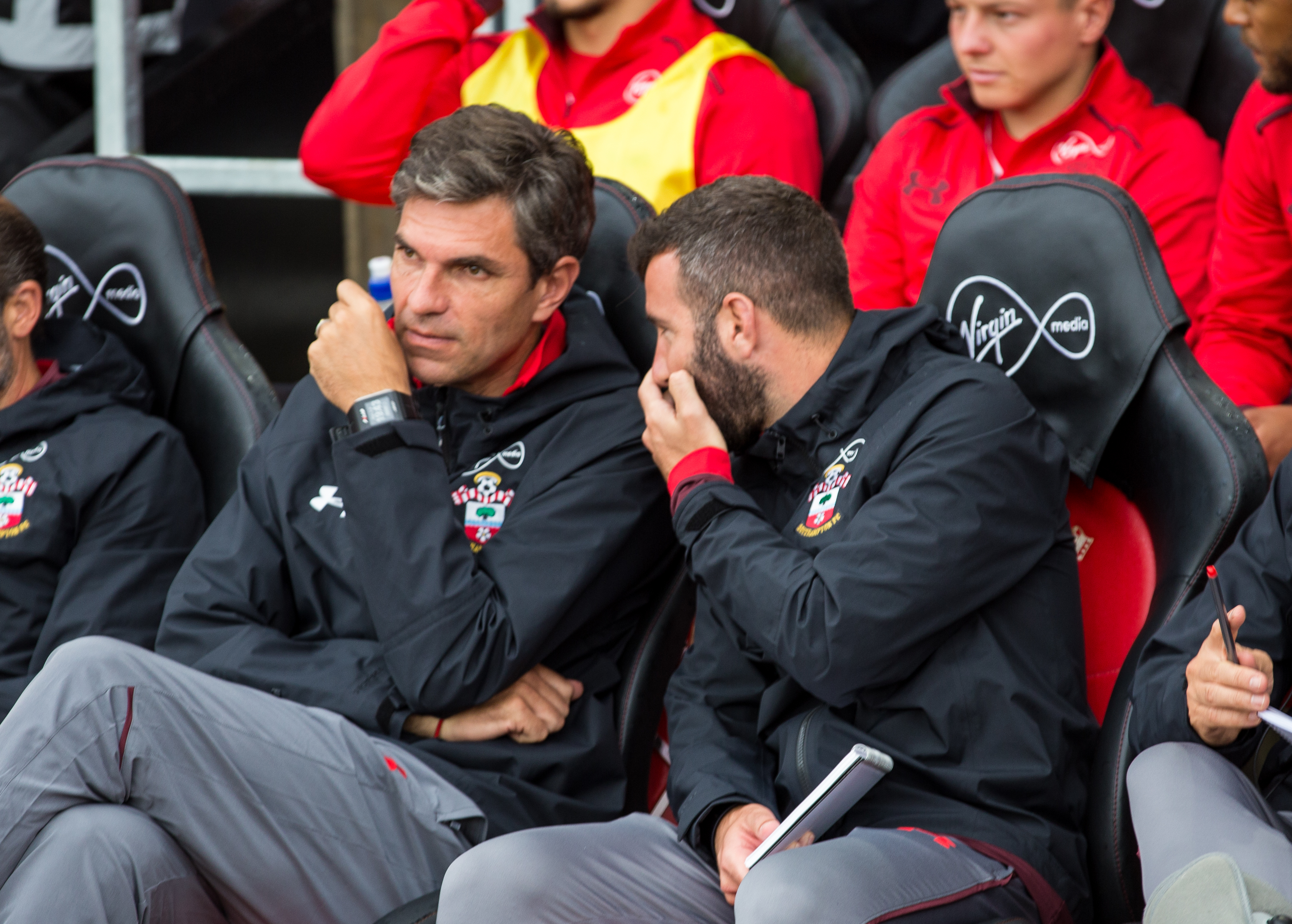 Pre-season friendly Wednesday 2 August 2017 Image by Oscar Rodriguez